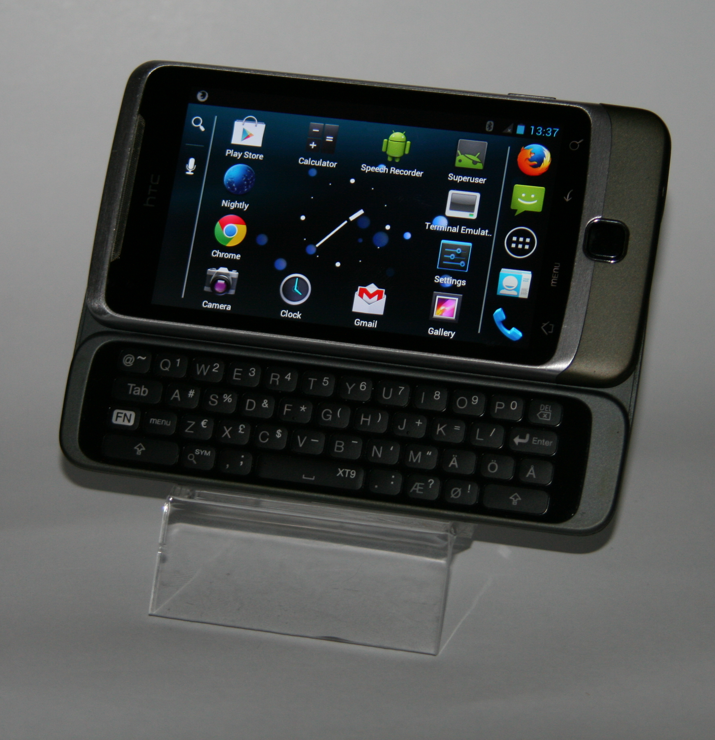 A HTC Desire Z - with keyboard open. A custom ROM - CyanogenMod is used.